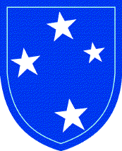 Shoulder Sleeve Insignia for the US 23rd Infantry Division.